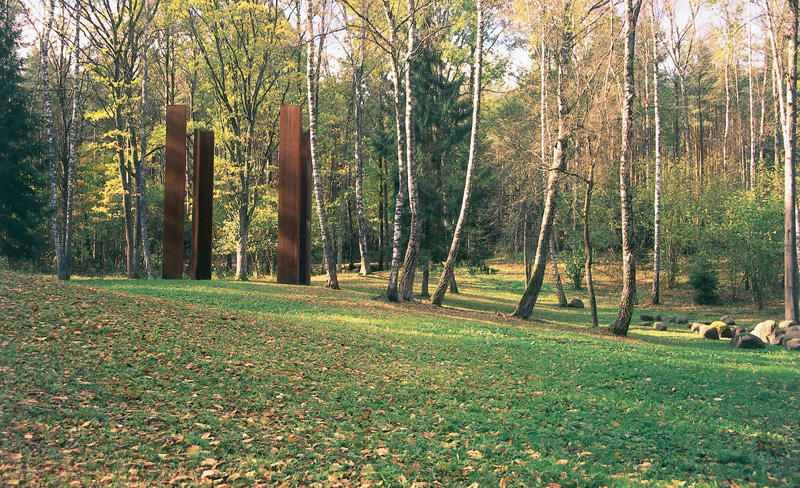 The Place created by Gintaras Karosas exhibited in Europos Parkas, Open-Air Museum of the Centre of Europe, Lithuania